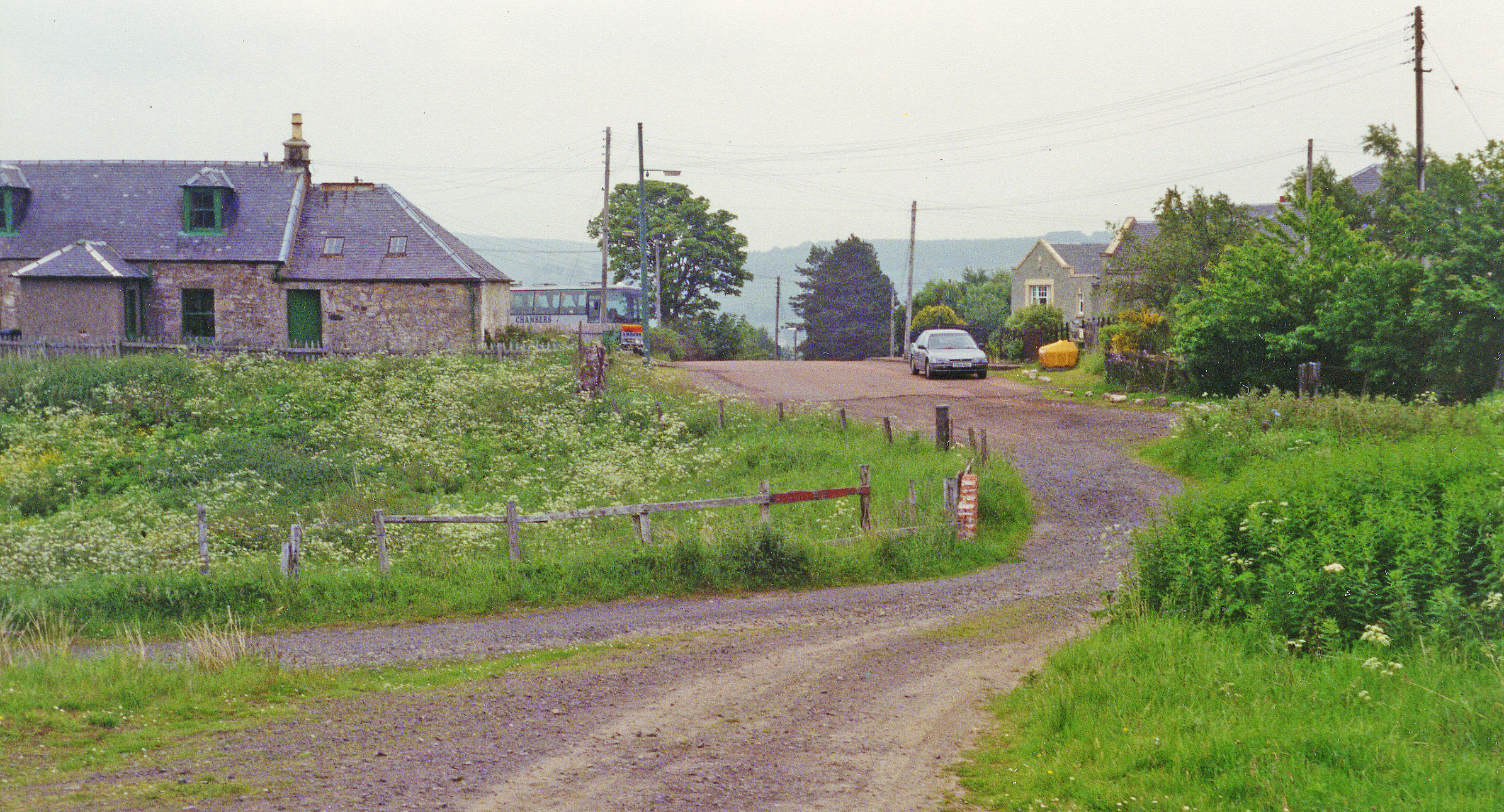 Douglas West: site/remains of station, 1994. View eastwards beyond the end of the Station Road, across the course of the ex-Caledonian Railway line to Muirkirk (to the right) from (to the left) Glasgow via Brocketsbrae and from Lanark. The station was closed with the line from Lanark to Muirkirk on 5/10/64.